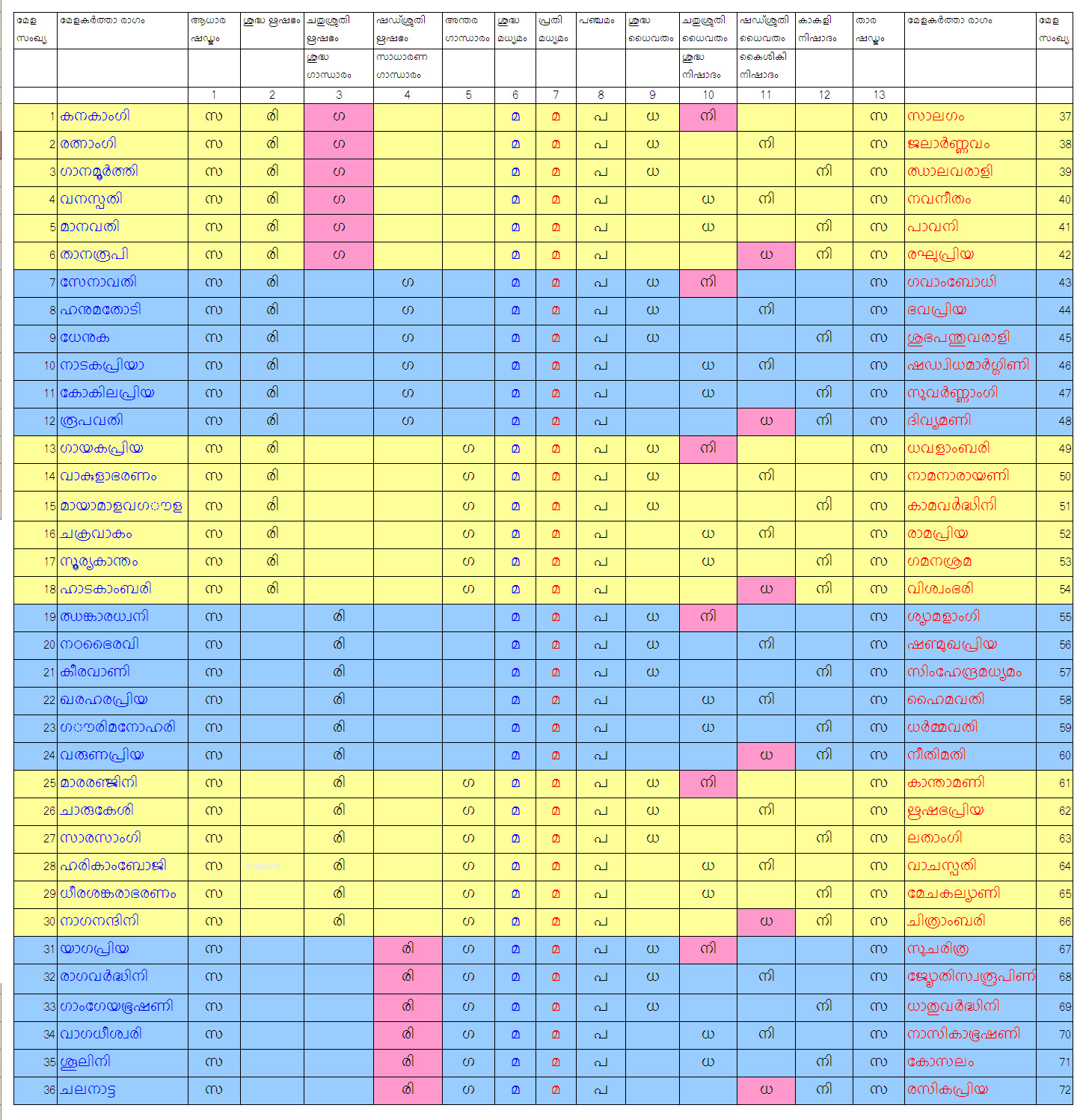 Table of Melakartha Ragam with the placement of notes. മേളകർത്താരാഗം. കർണ്ണാടകസംഗീതത്തിലെ മേളകർത്താരാഗങ്ങളിലെ സ്വരങ്ങളുടെ സ്ഥാനങ്ങൾ